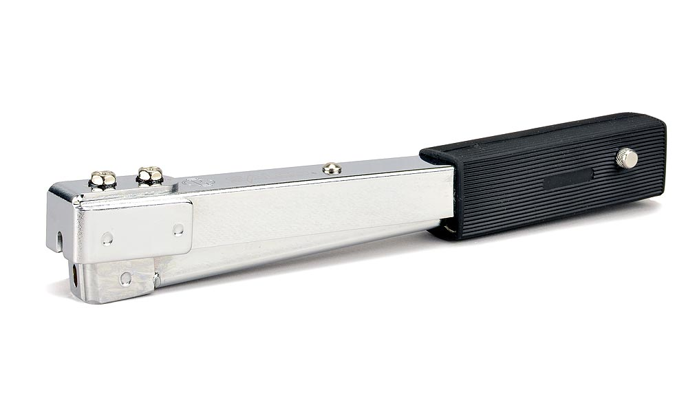 hammer tacker